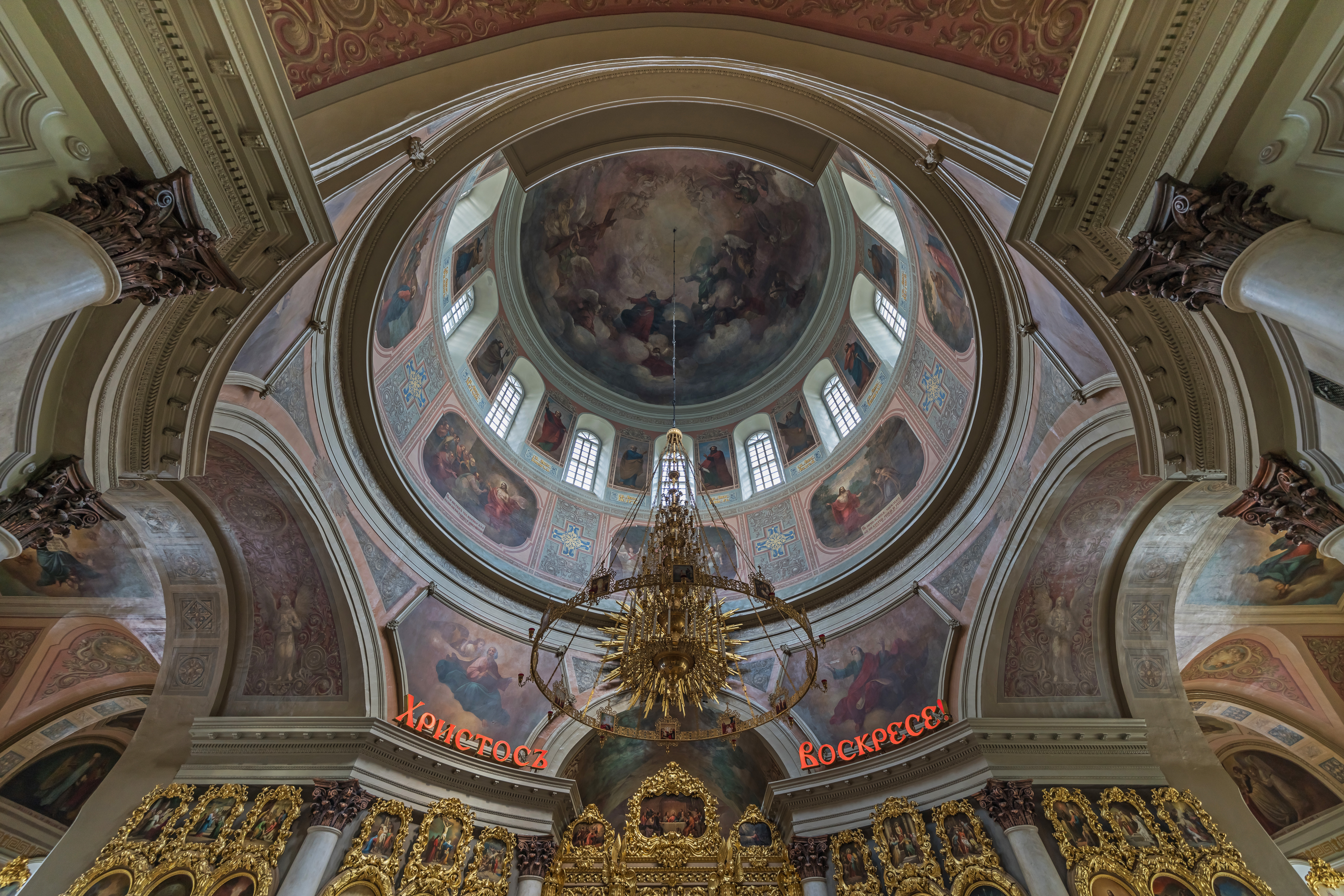 Great Ascension Church in Moscow, Russia